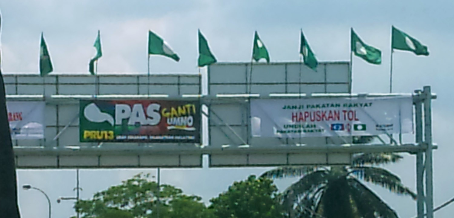 13thGE flag wars in Klang Valley